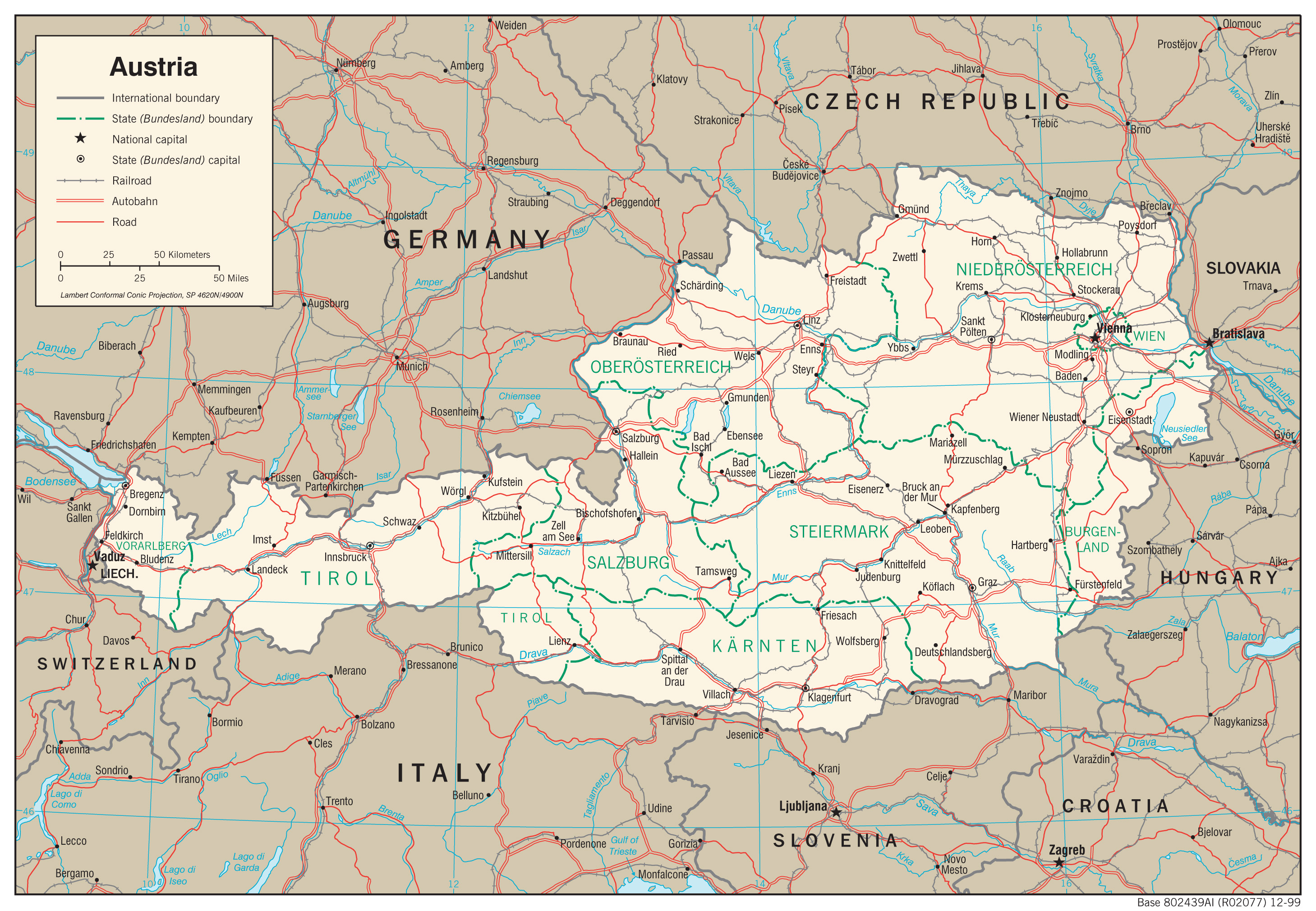 Transport system in Austria, 2000.